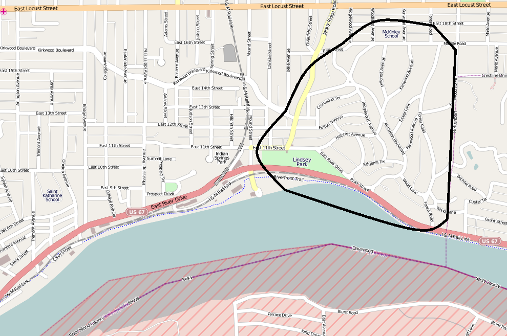 This map of the boundaries of Camp McClellan, a Union Army camp from the Civil War (1861-1864). It is located in the southeast corner of Davenport, Iowa. The boundaries are based on those by Marlys A. Svendsen and Martha Bowers in their book "Davenport: Where the Mississippi runs West" (1982:City of Davenport, Iowa) page16-2. was created from OpenStreetMap project data, collected by the community. This map may be incomplete, and may contain errors. Don't rely solely on it for navigation.